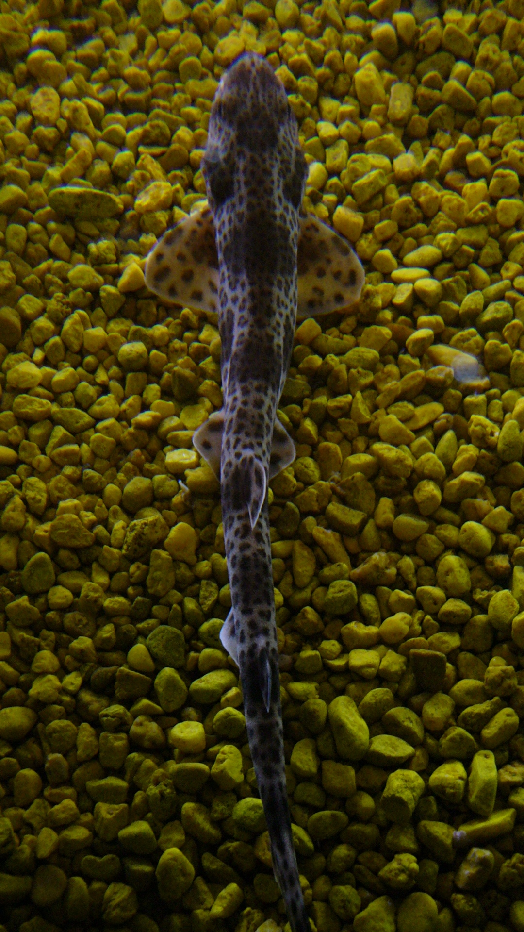 Scyliorhinus canicula (Lesser dogfish) in Sala Maremagnum of Aquarium Finisterrae (House of the Fishes), in Corunna, Galicia, Spain.